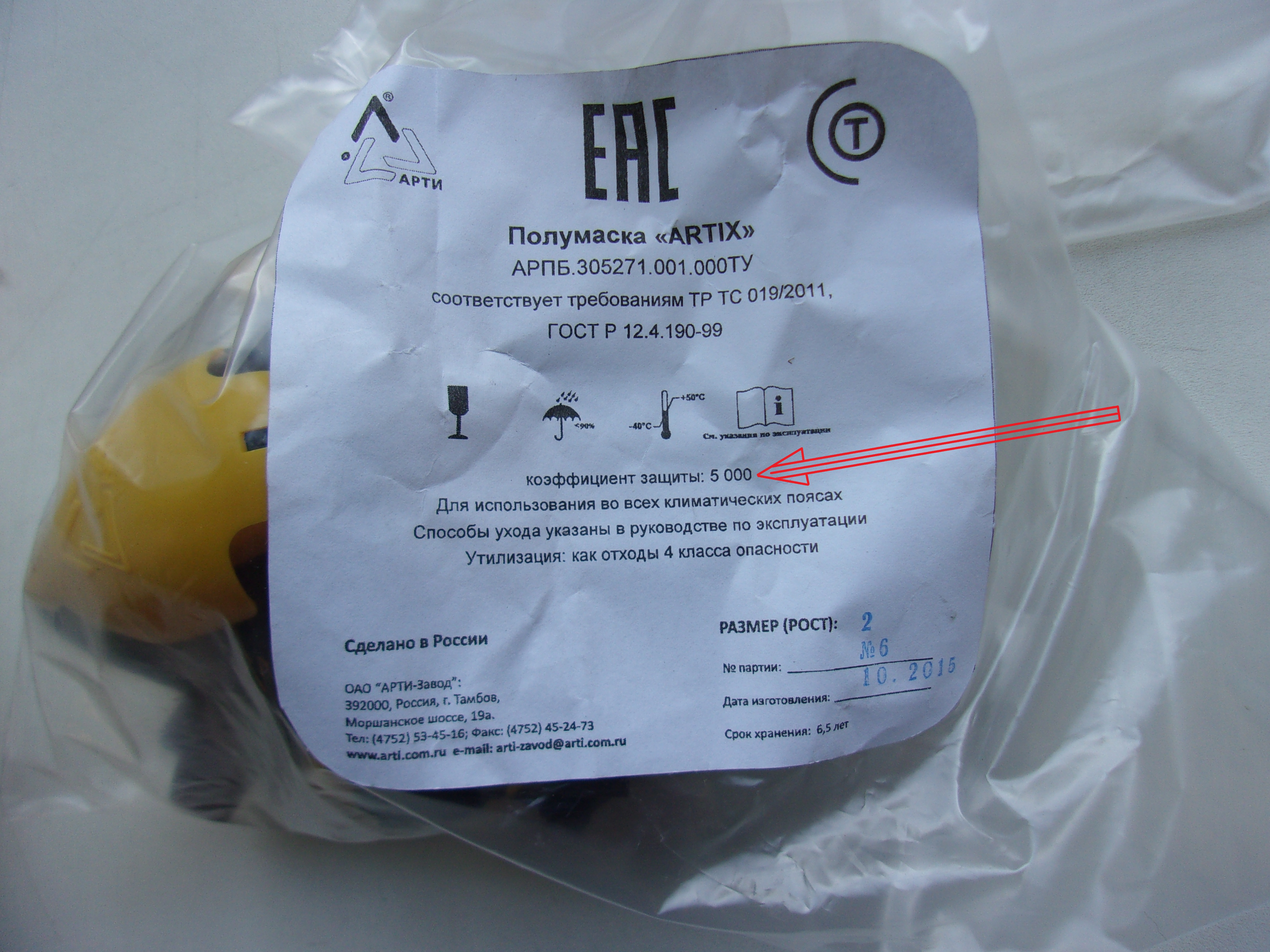 A negative pressure elastomeric half mask respirator (made in RF). The manufacturer overstated the effectiveness of the protection half mask 500 times compared to the USA (Assigned Protection Factor (коэффициент защиты КЗ) = 5000 and 10, respectively). This overestimation is due to the lack of state regulation and organization of the use of Respiratory Protective Devices (in RF and in the CIS countries).